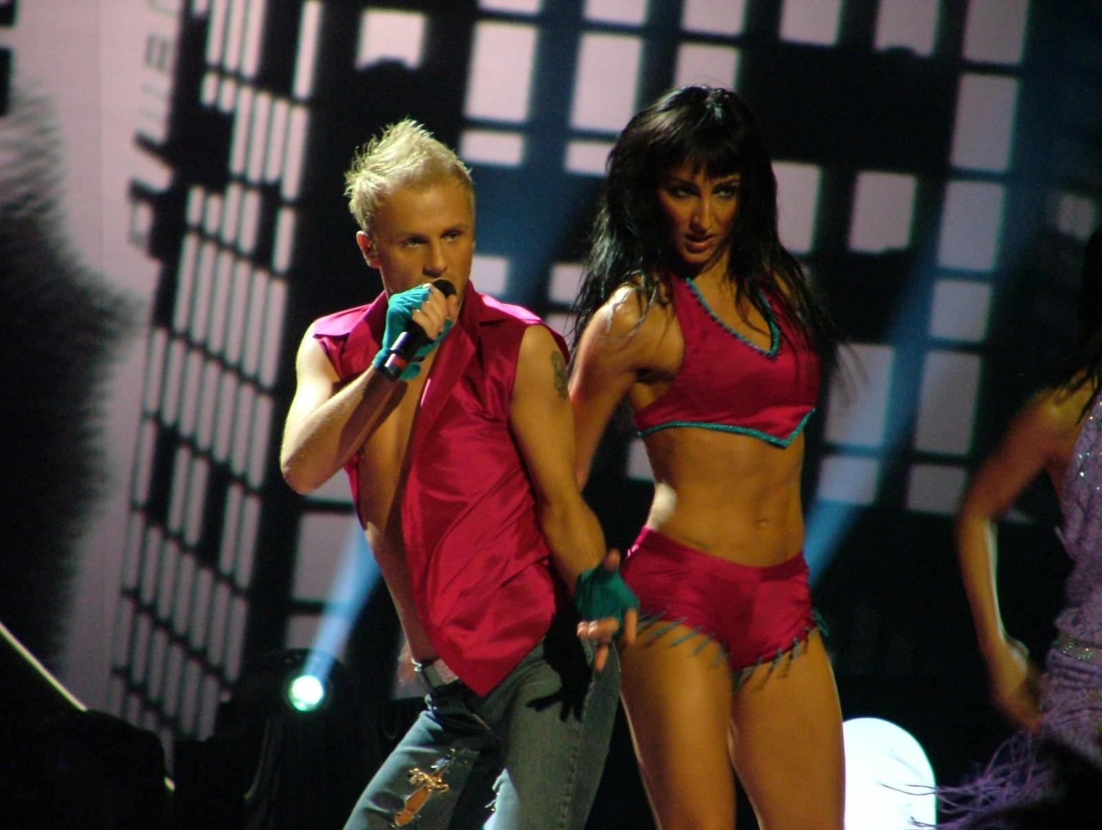 Deen performing "In The Disco" for Bosnia & Herzegovina at the Eurovision Song Contest 2004.